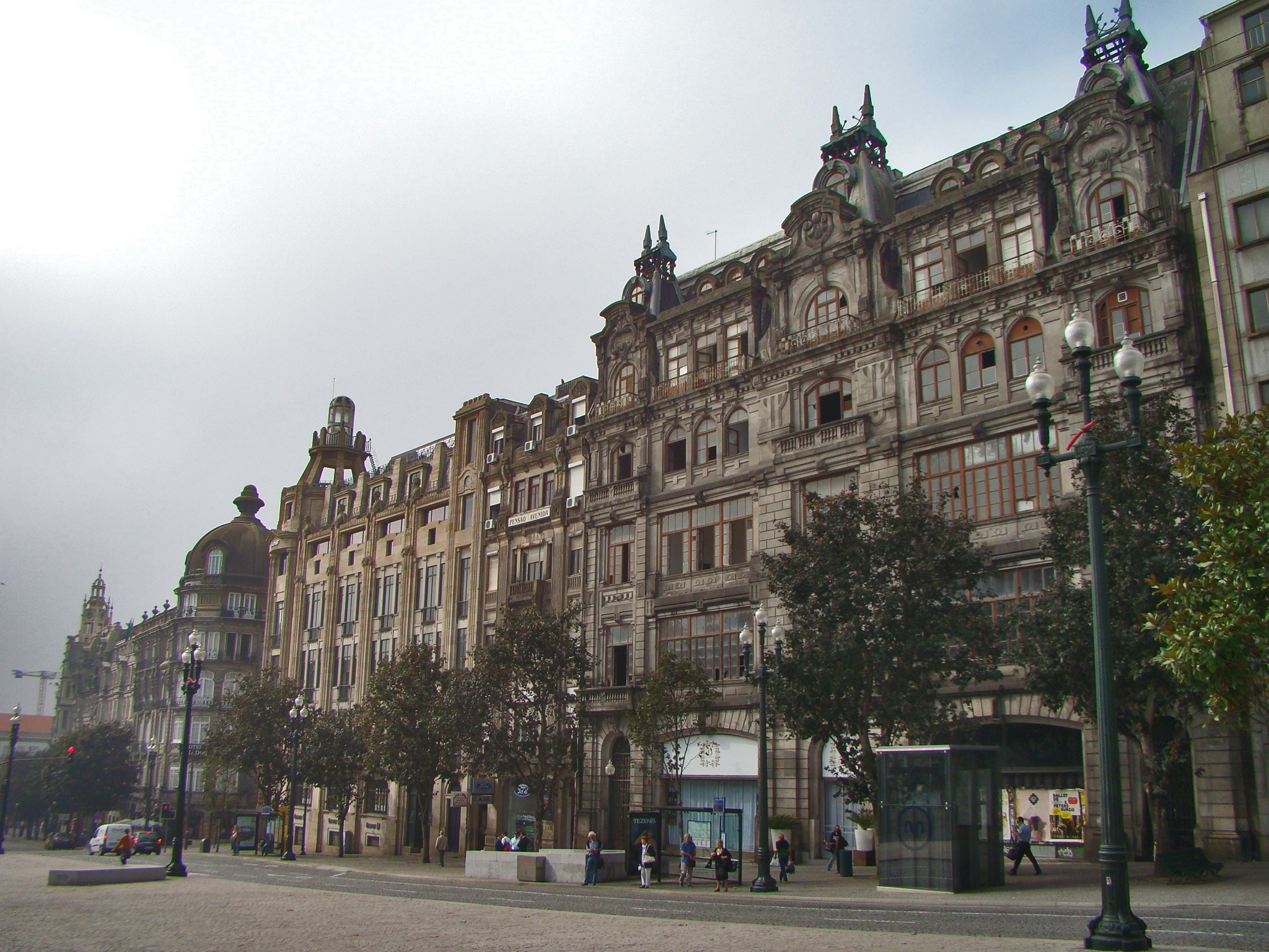 Aliados Avenue